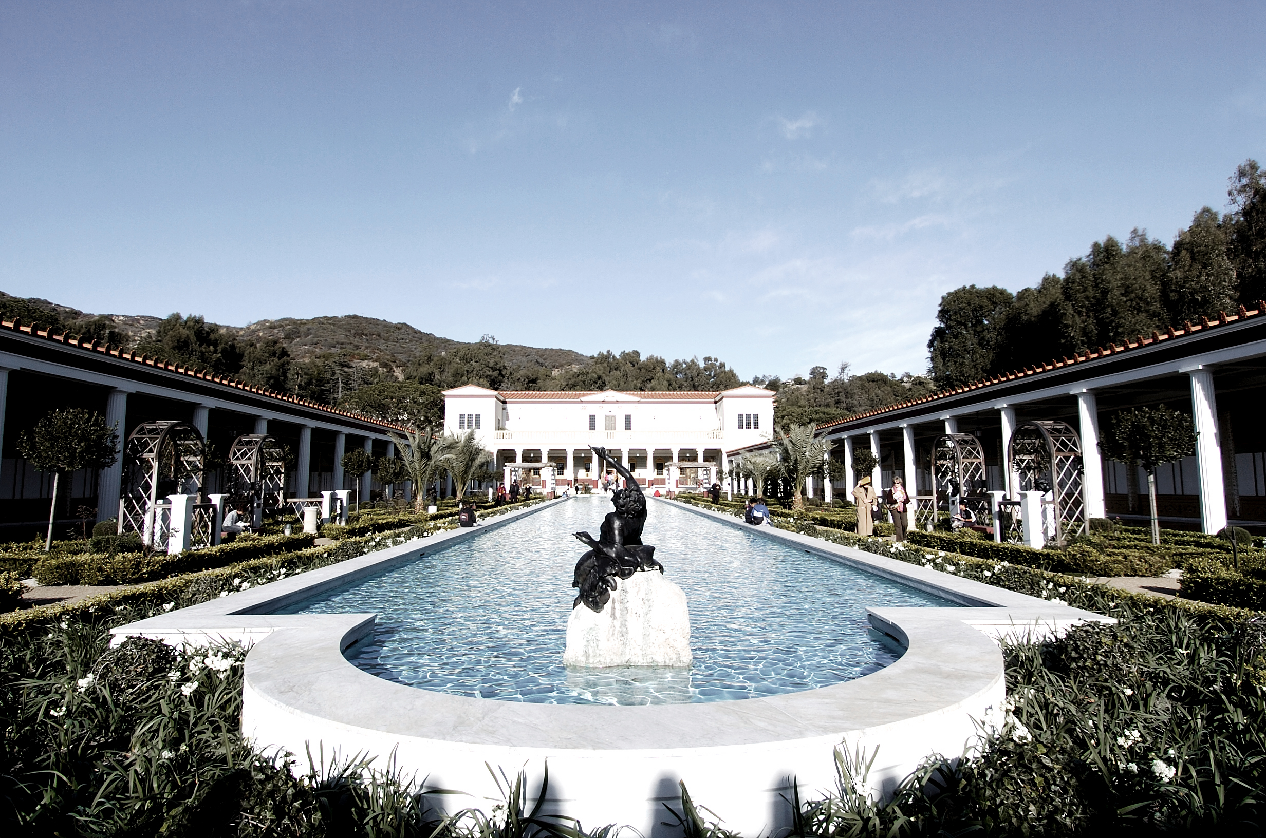 The outer Peristyle Garden of the Getty Villa Roman gardens, Los Angeles.